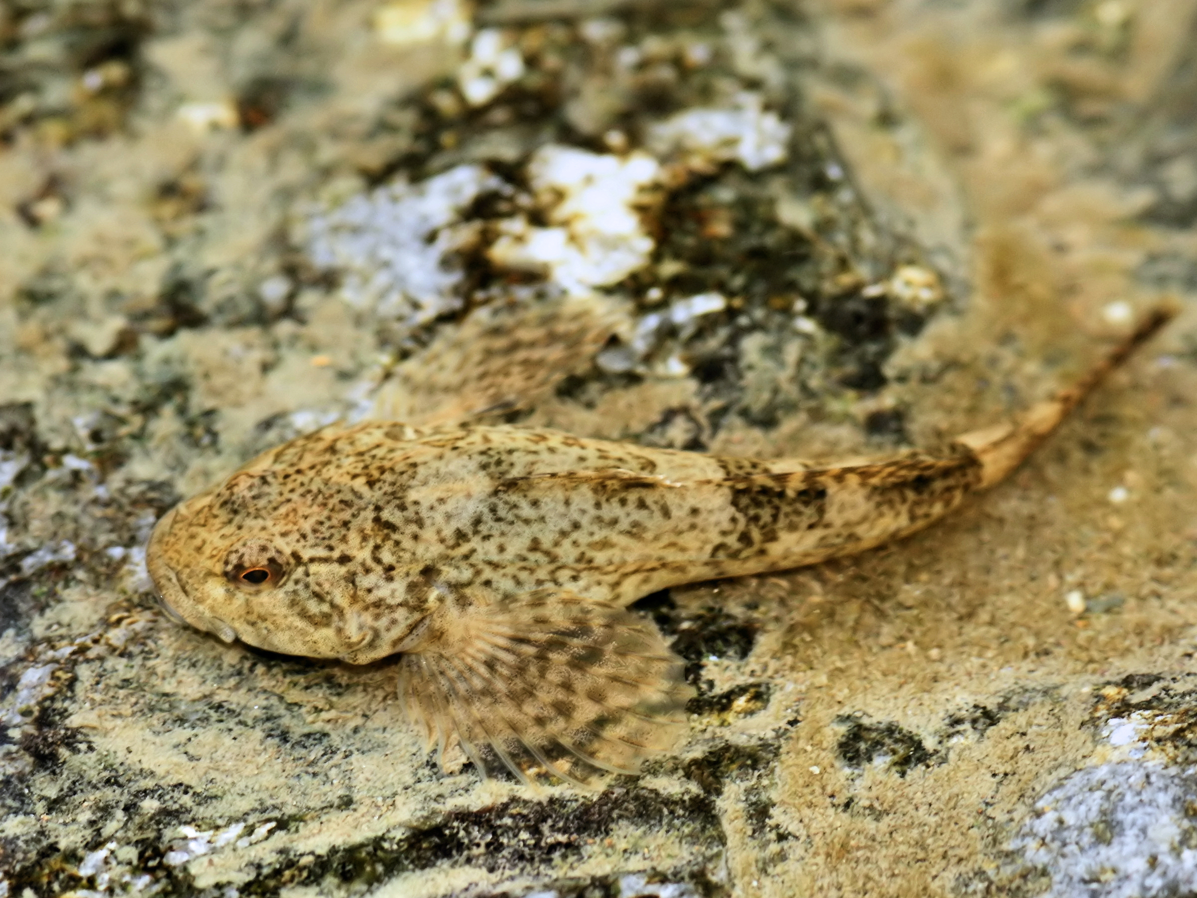 European bullhead in the Viroin close to Nismes.